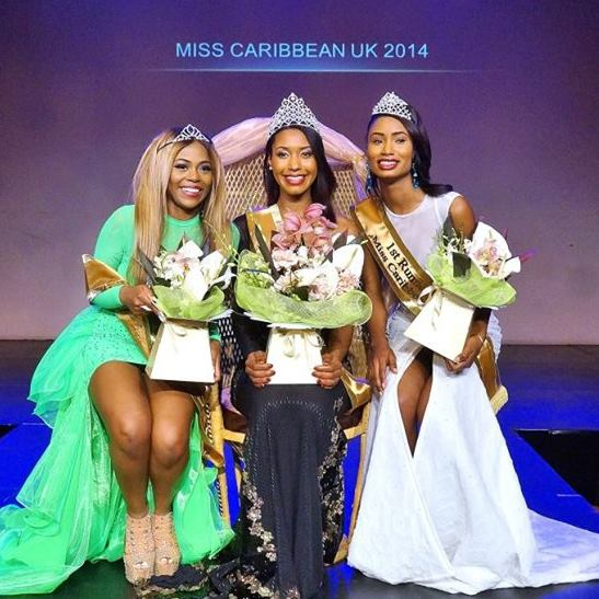 Ayesha Williams (in green) 1st Runner Up, Keeleigh Griffith (in black) Winner, Kimhia Toussaint (in white) 2nd Runner Up. All dressed by designer Francis Agyapong of AgyeFrance Design.